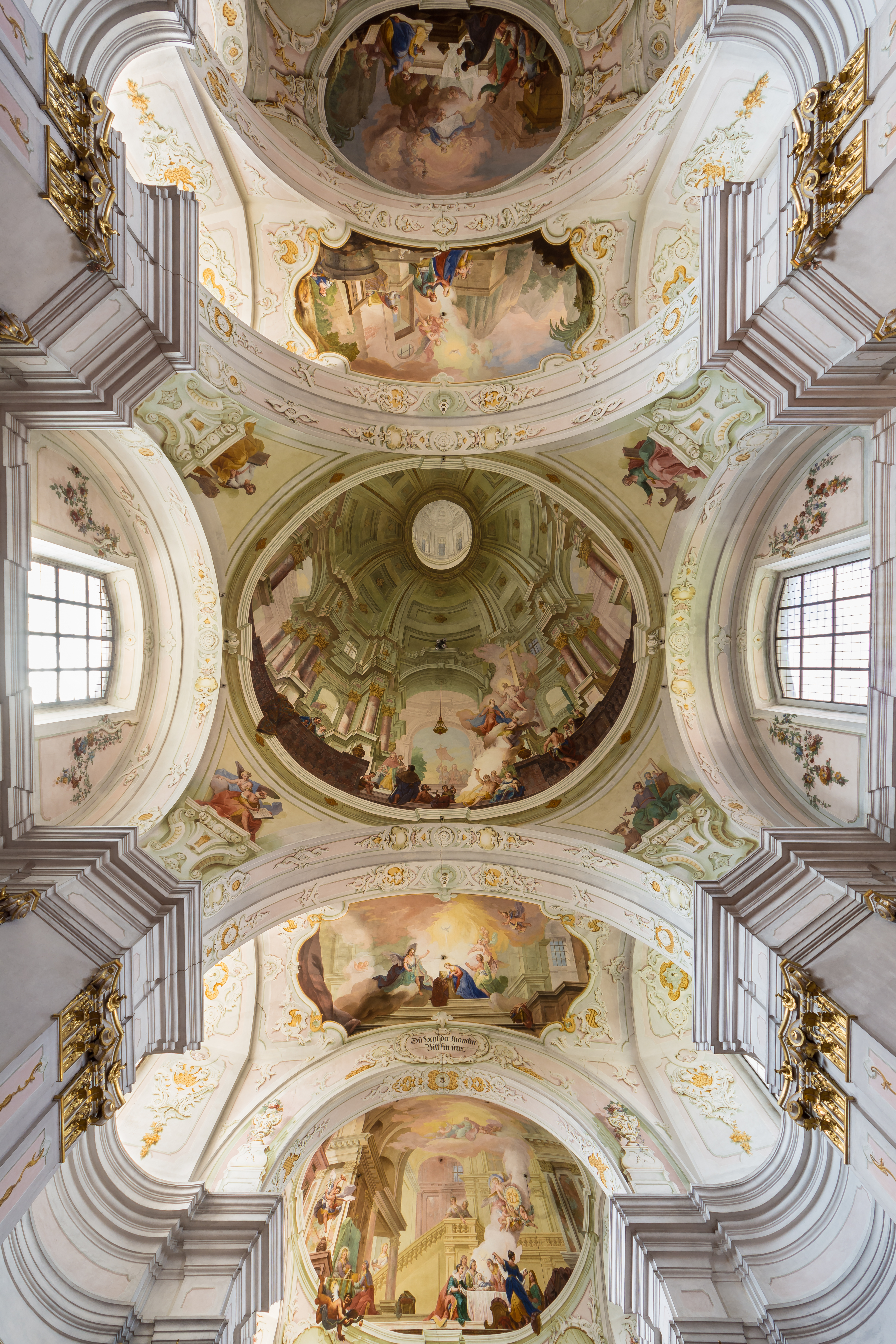 Ceiling frescos in the pilgrimage church of Maria Langegg (Lower Austria) by Josef Adam Mölk (1773): The Birth of Mary in the sanctuary - The Annunciation - Mary, Salvation of the Sick in the dome - The Visitation - The Assumption of Mary. The interesting illusion painting of the dome is designed to be viewed from the church entrance, thus it looks completely wrong in this view.